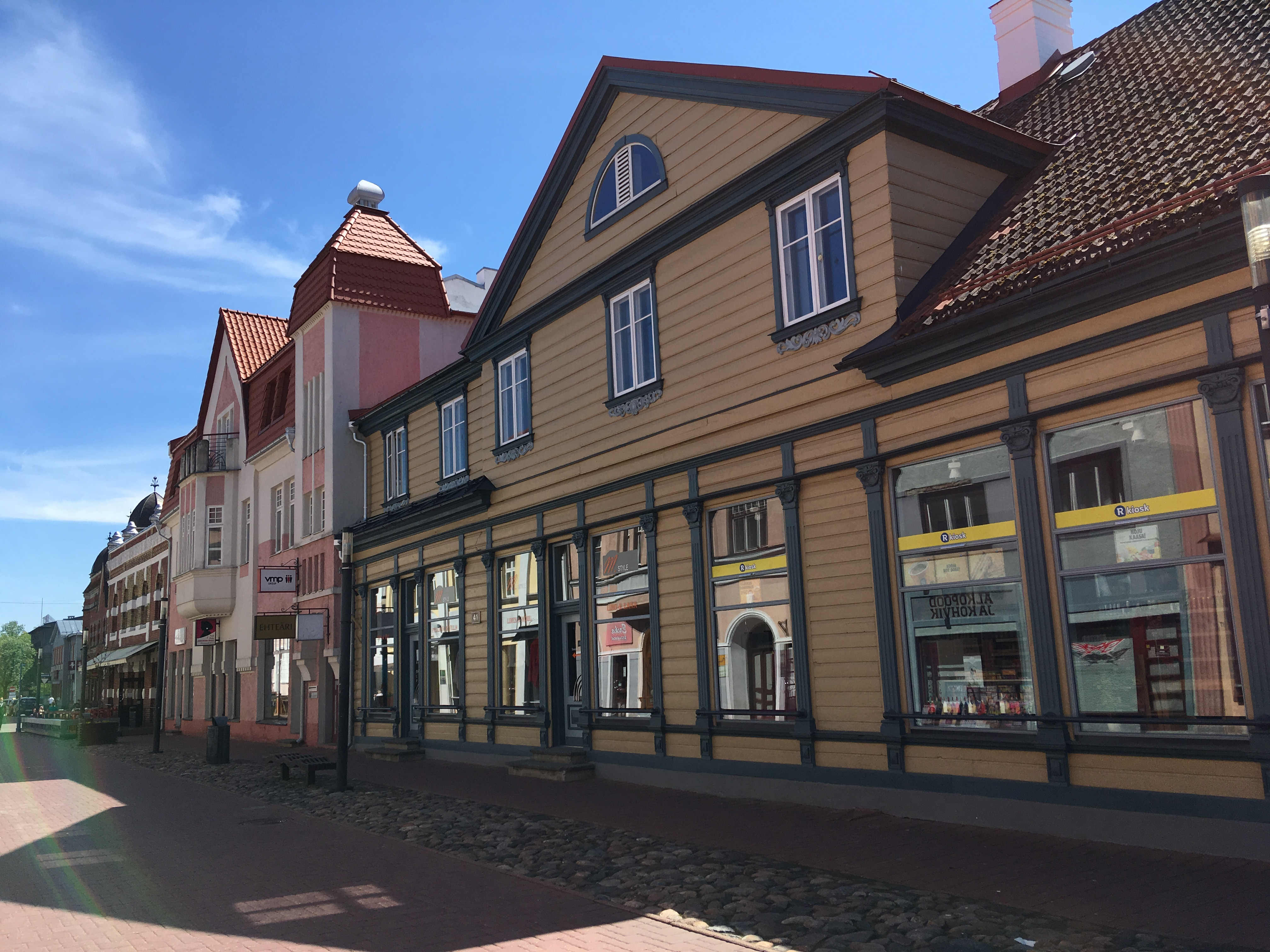 Rüütli street, Pärnu, Estonia - May 2017